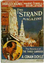 Arthur Conan Doyle, The Adventure of the Three Garridebs (1911), cover of The Strand Magazine.